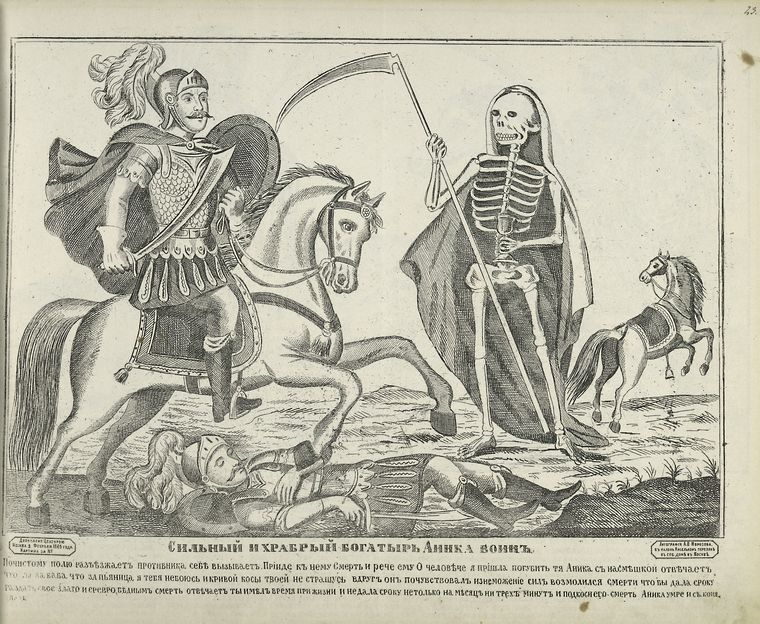 Mighty and valiant warrior Anika. Russian lubok.